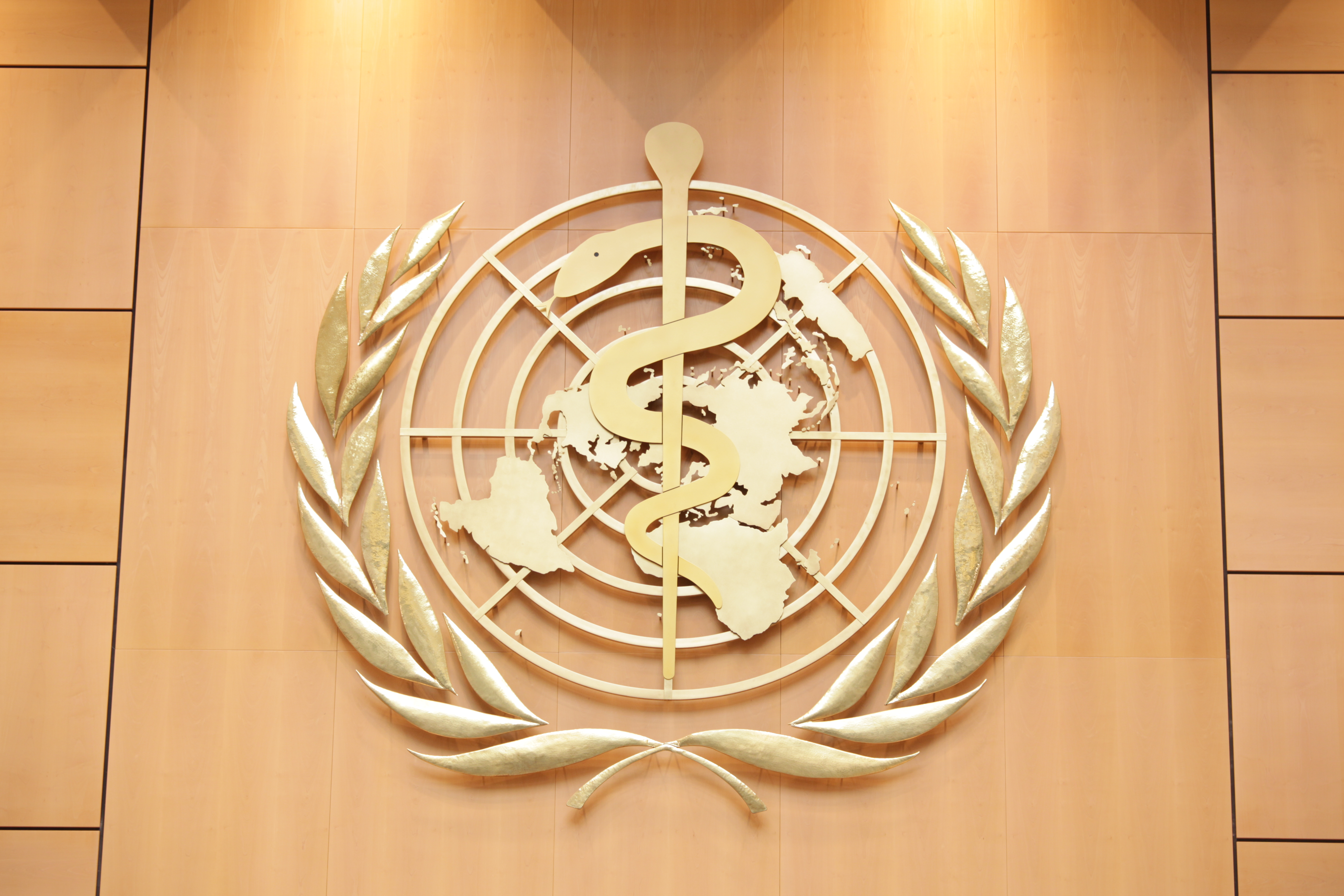 Public health officials from almost 200 nations are meeting in Geneva May 16-24, trying to devise strategies to address the many health problems that shorten life and diminish its quality for millions of people. U.S. Secretary of Health and Human Services Kathleen Sebelius is leading the U.S. delegation of about 25 to the World Health Assembly, which is the annual gathering for member states of the World Health Organization (WHO). A major focus of the meeting will be WHO's first Global Status Report on Noncommunicable Diseases which found that diseases such as cancer, cardiovascular disease, respiratory disease and diabetes cause the greatest number of deaths each year – 63 percent of all deaths worldwide in 2008.